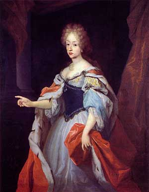 Margravine Charlotte Amalie of Hesse-Kassel, queen consort of Denmark and Norway.